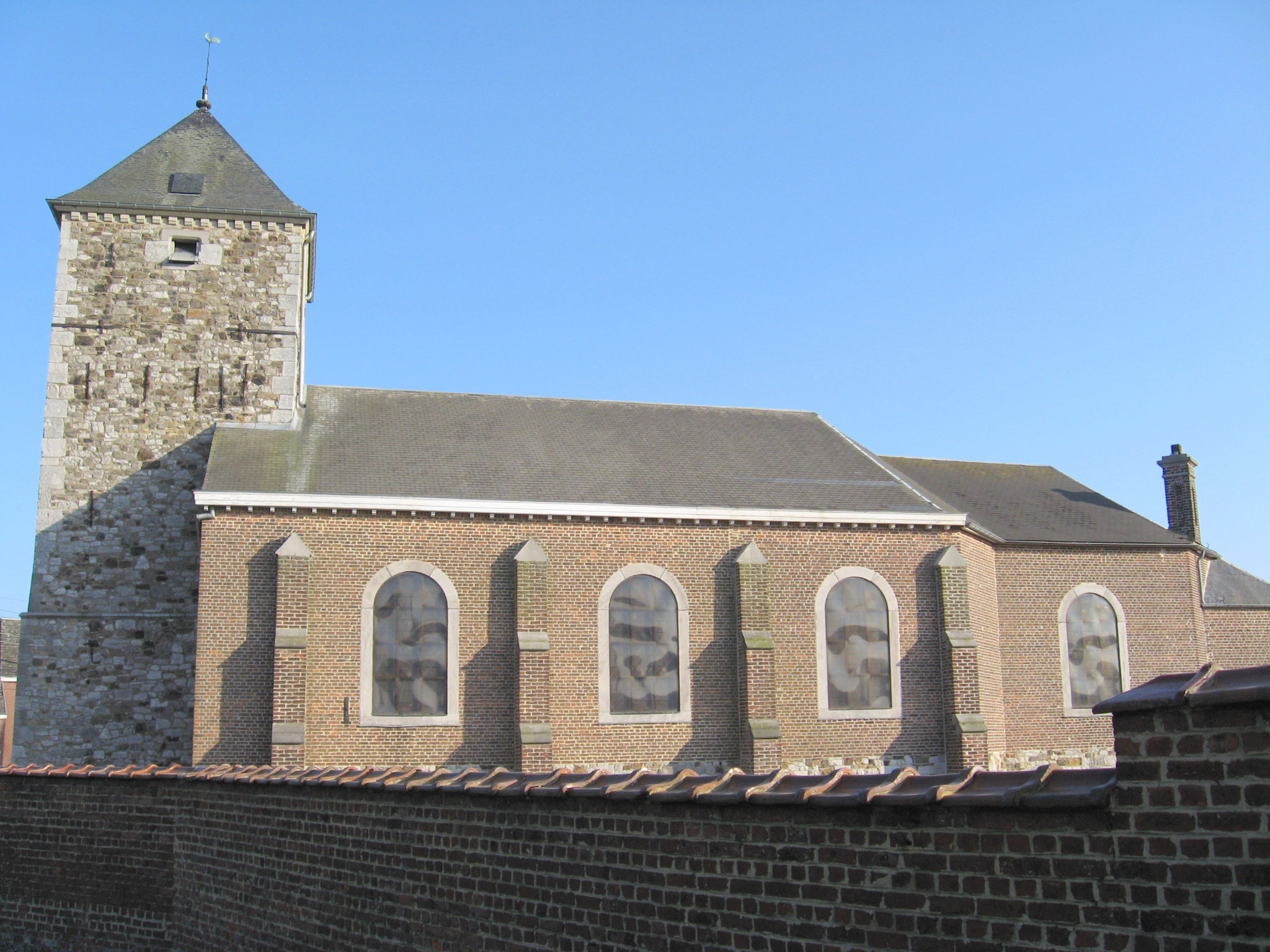 Church of Saint Andrew in Velroux, Grâce-Hollogne, Liège, Belgium